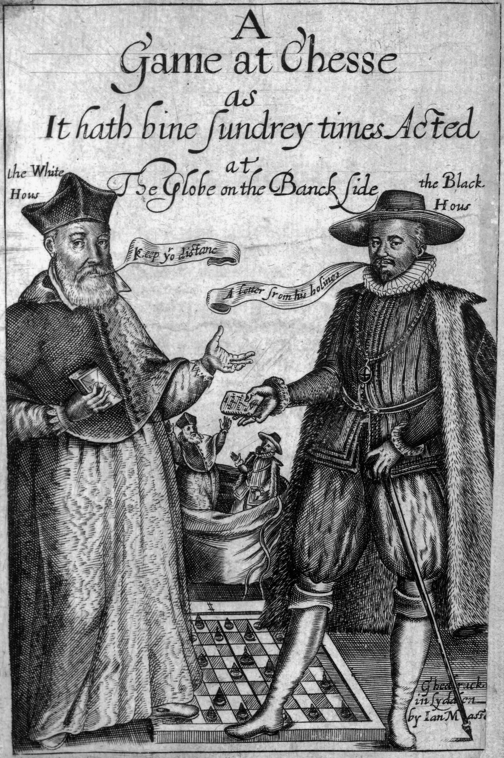 From Lavagnino, John and Taylor, Gary: Thomas Middleton The Collected Works, page 11. Oxford, 2007 This image was from the title-page of A Game At Chess